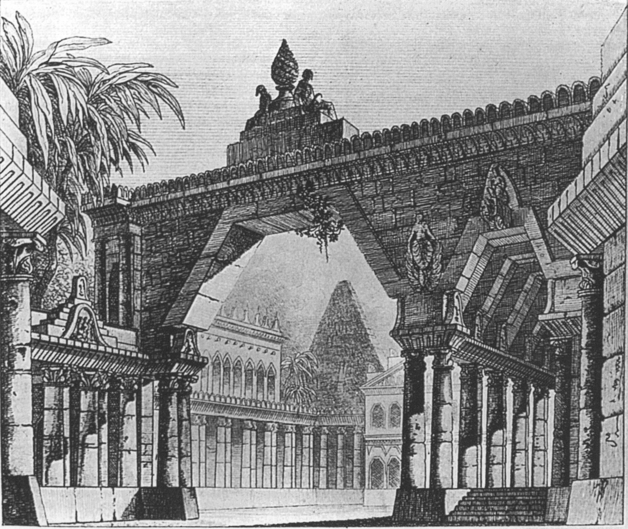 Rossini - Mosè in Egitto - 1. acte 1. scene - stage design draft - Antonio De Pian - copper engraving by Norbert Bittner - Kärntnertortheater Vienna 1824